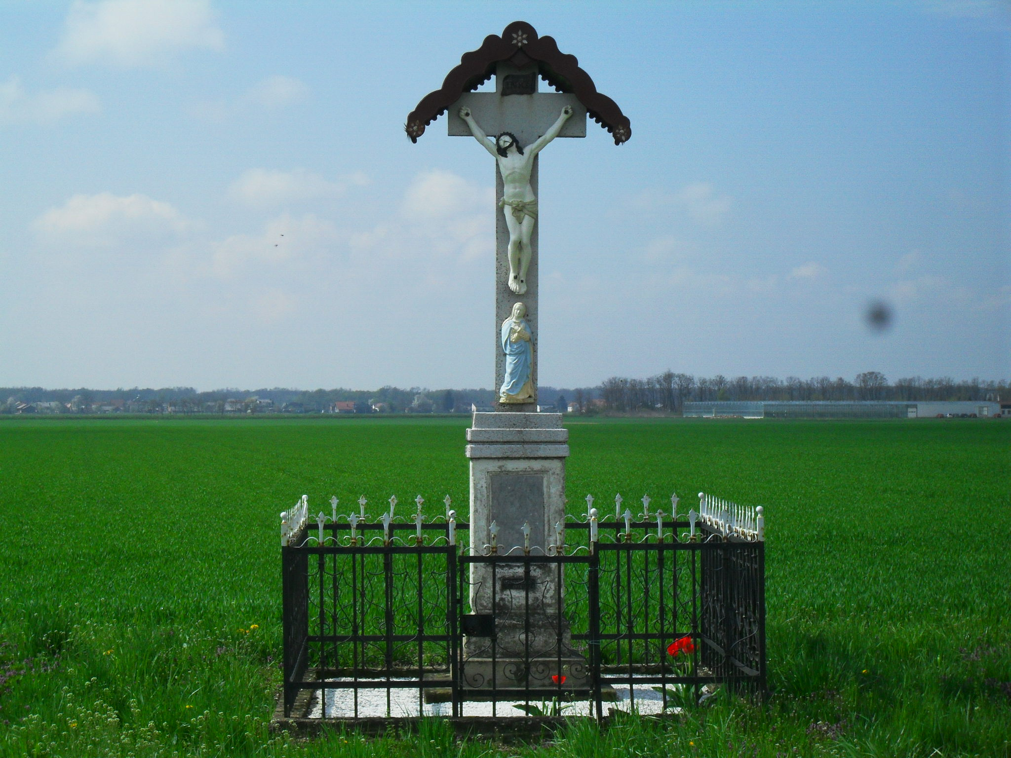 Cross from 1886 in Tešanovci, Prekmurian, with prekmurian (prekmurščina) inscription (1)